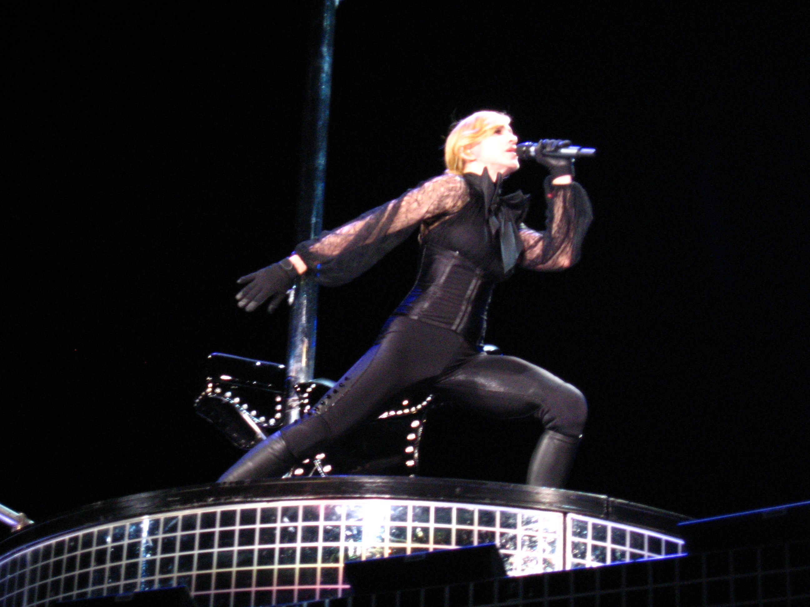 Picture taken at the concert